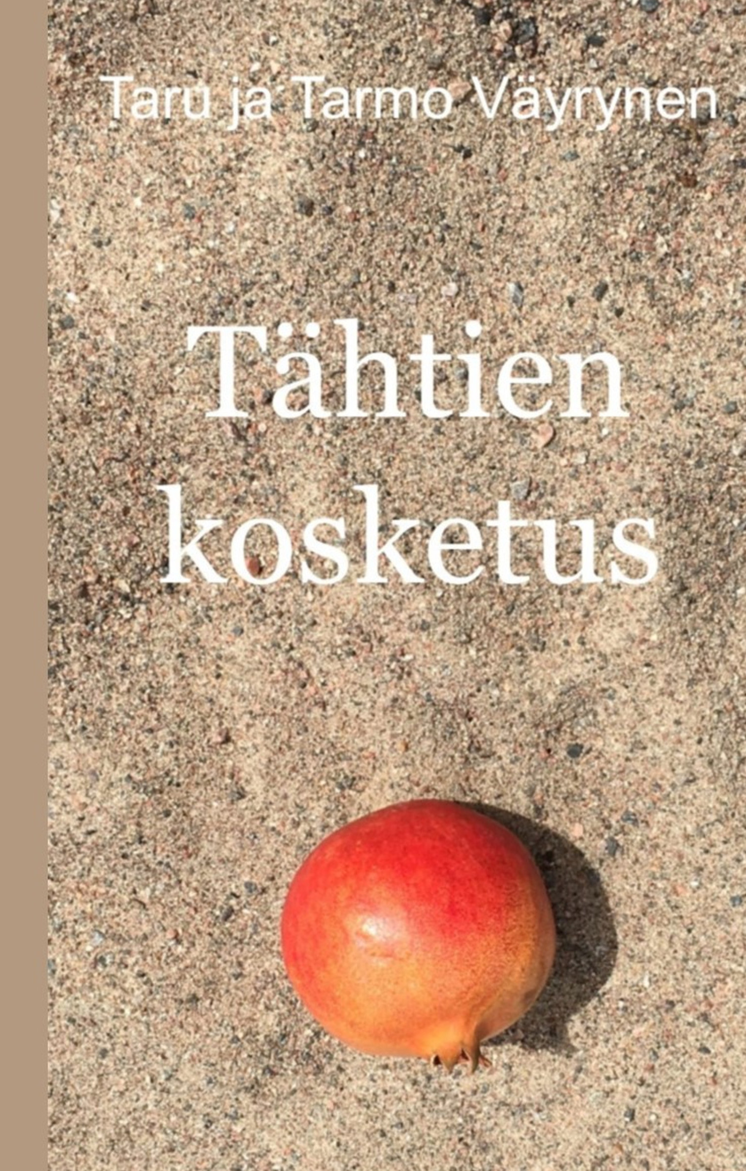 Tähtien kosketus